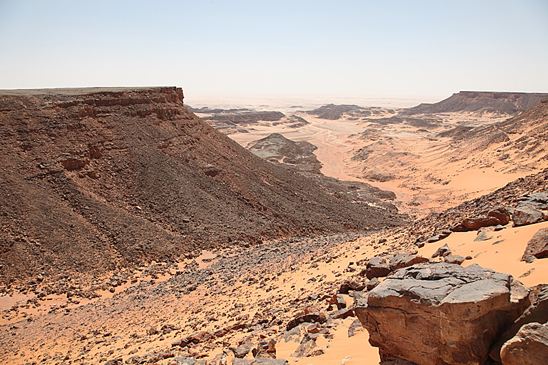 Bellevue (nice view), Gilf Kebir Plateau, Western Desert, Egypt